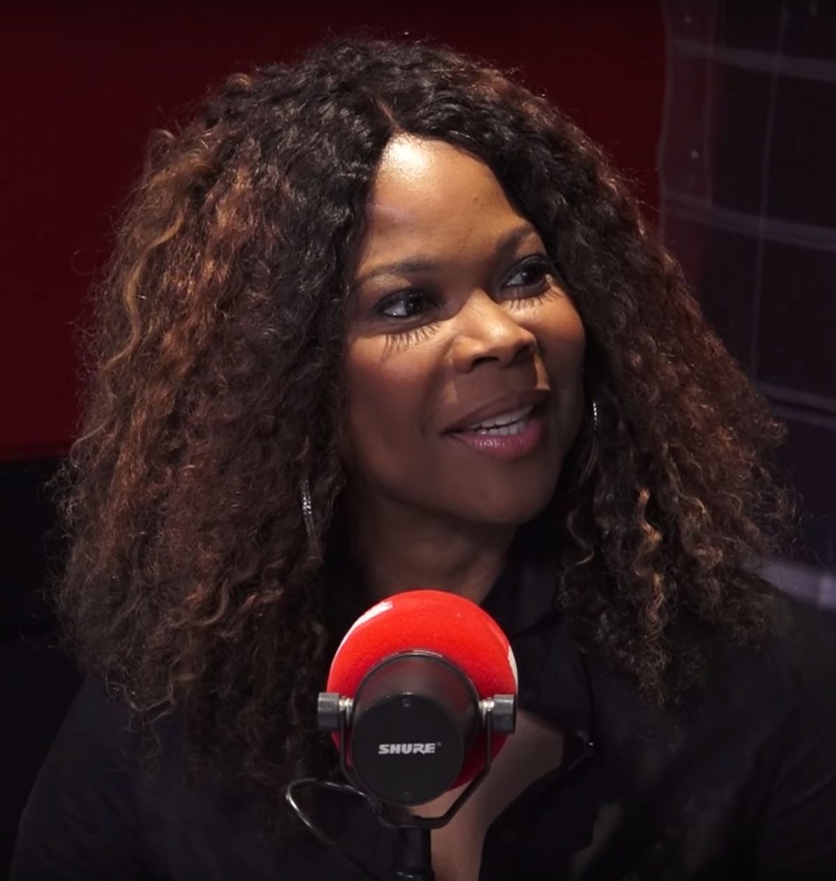 Angela Robinson & Cassi Davis Talk About Meeting Oprah for The First Time